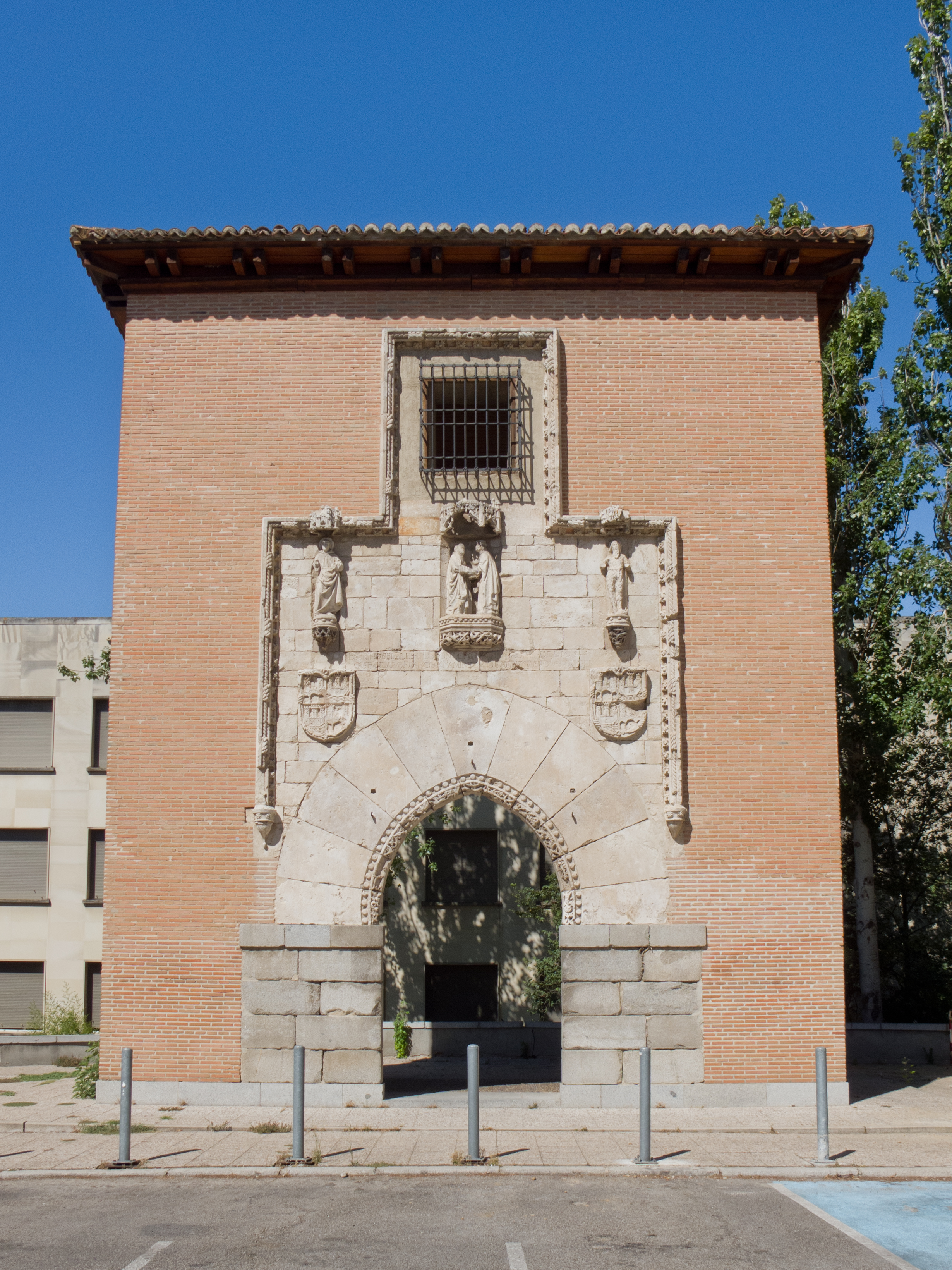 Gate of la Latina, Madrid, Spain.